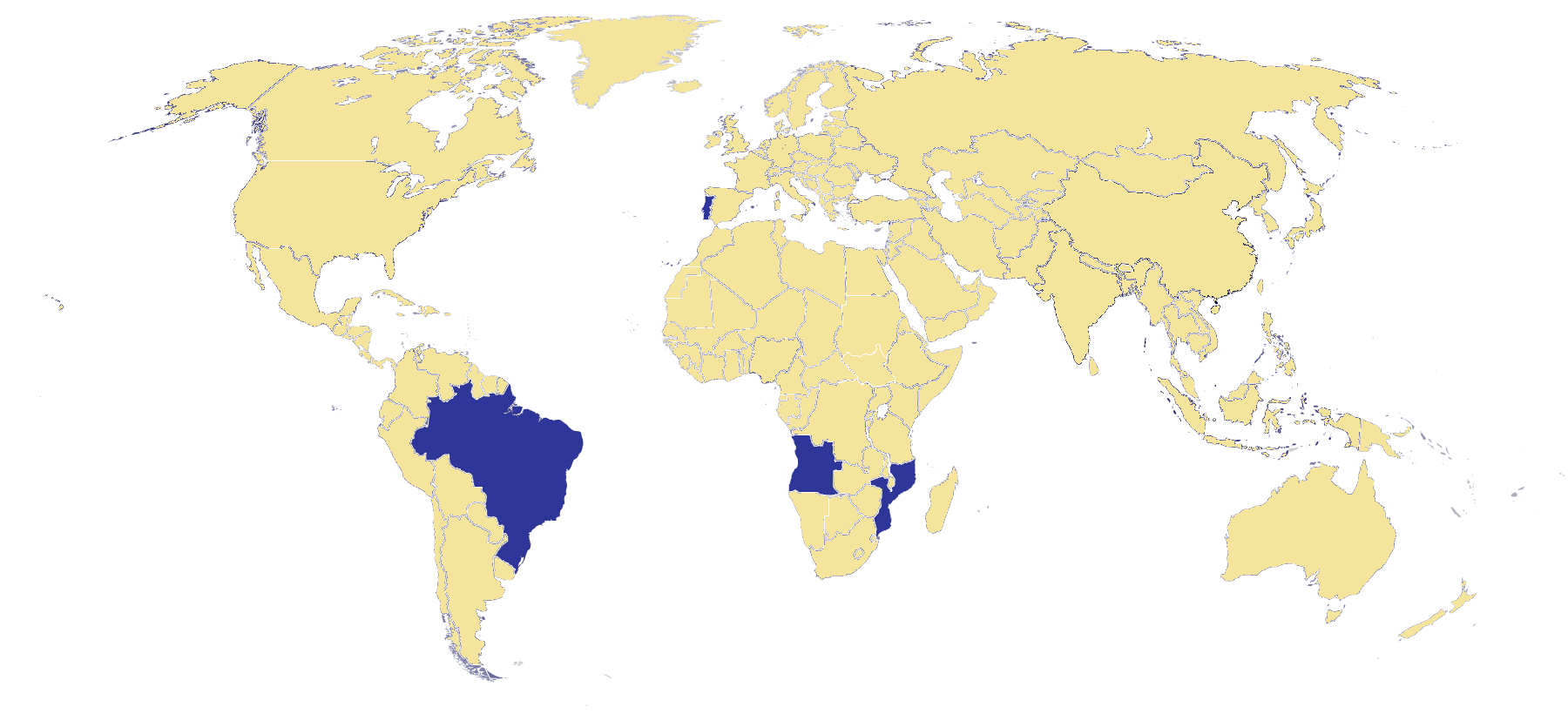 This map shows, in blue color, the countries where the Portuguese Wikipedia is the most popular language version of Wikipedia. The information has been sourced from here